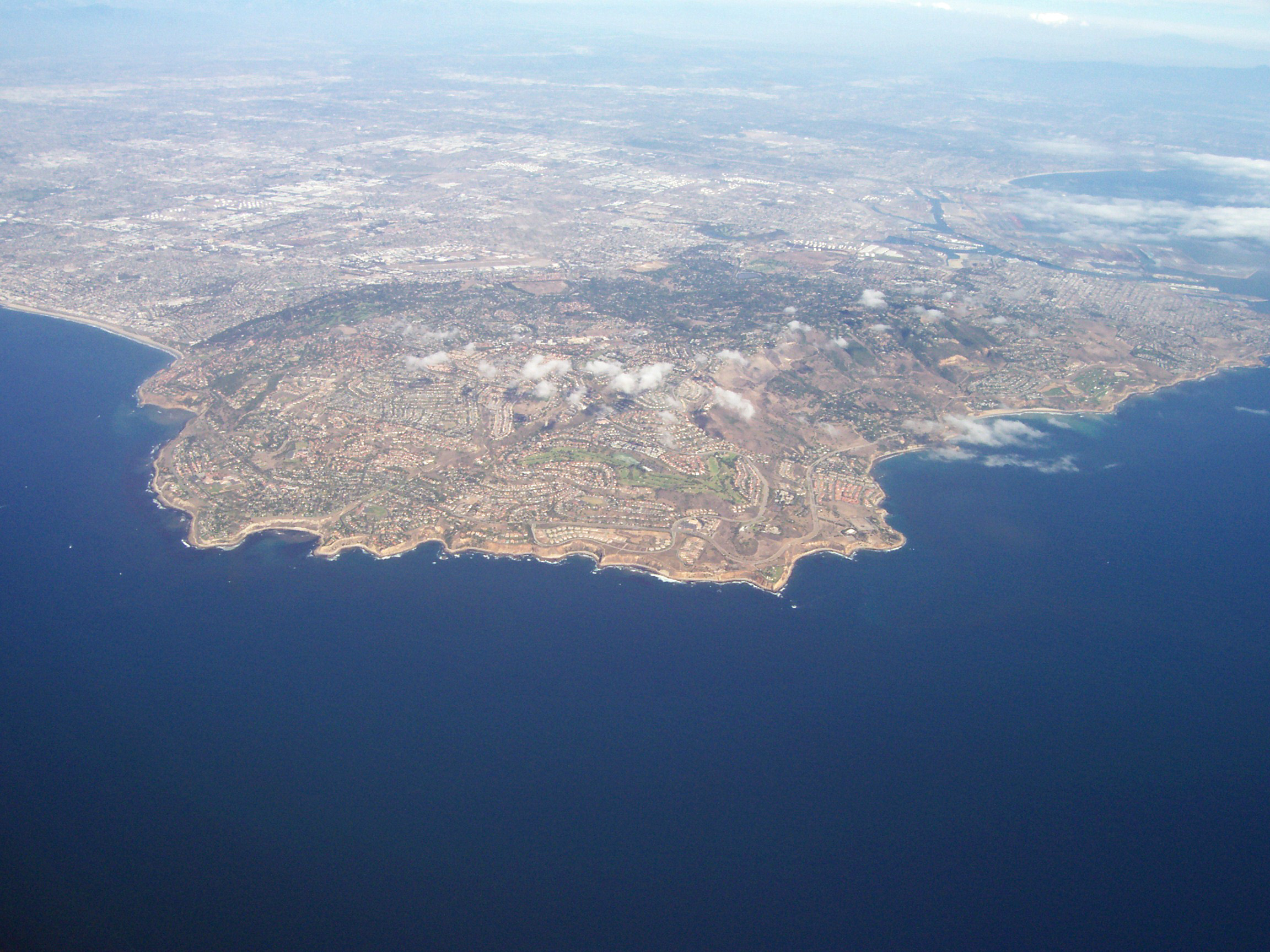 An aerial view of the Palos Verdes Peninsula and surrounding South Bay region, Los Angeles County, Southern California. The city of Los Angeles, California is seen in the distance (north); Santa Monica Bay on the left (west); and San Pedro Bay—Los Angeles Harbor on the upper-right (east). Kapampangan: Ing akakit king Palos Verdes Telapulu kambe ning Los Angeles keng makarayu